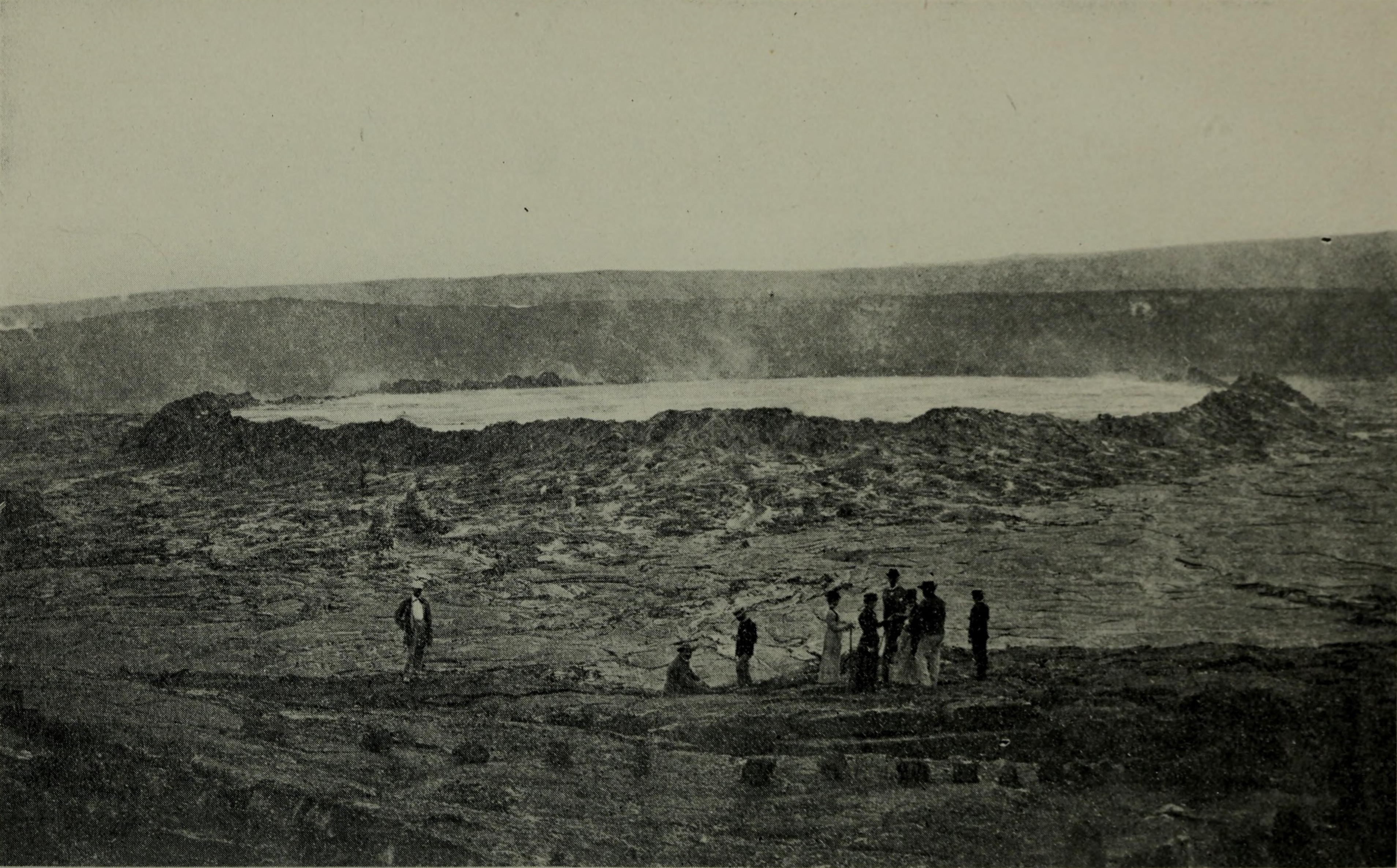 Lake of Molten Lava, Kilauea.